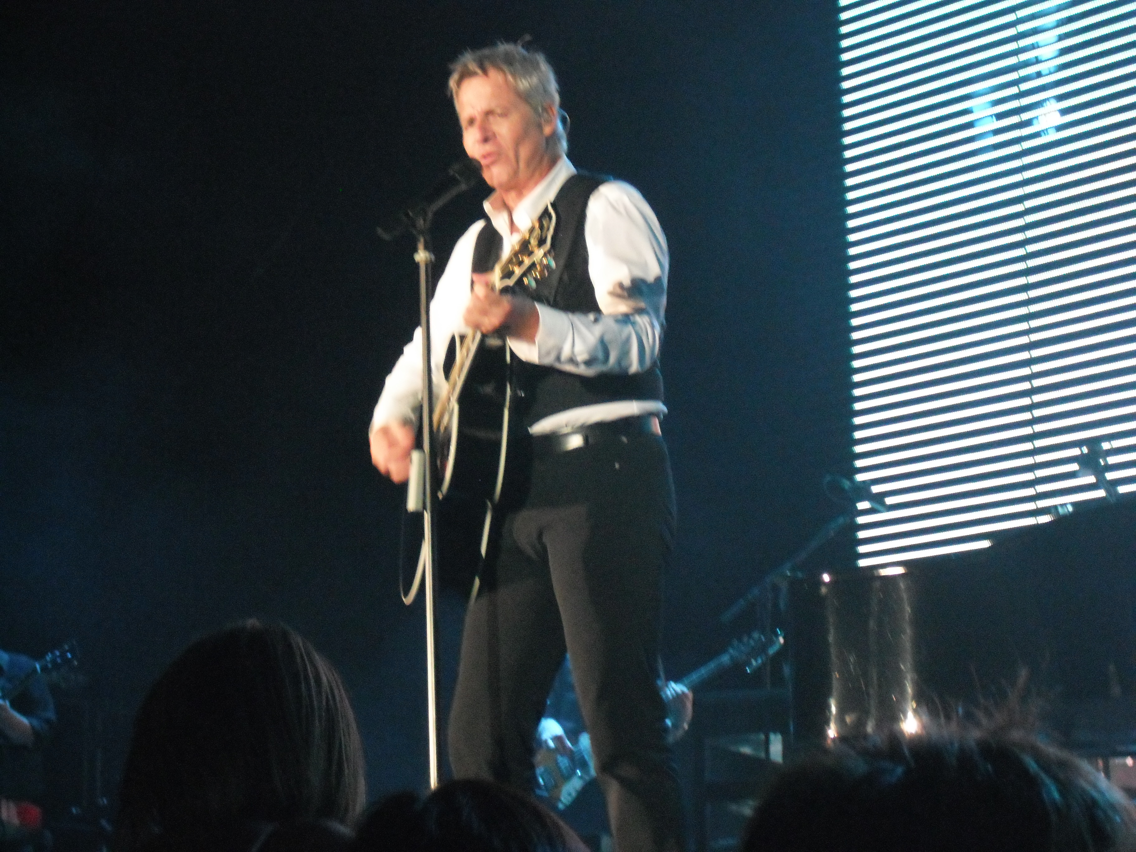 Claudio baglioni in concert (2008) at Assago (Milan), Italy